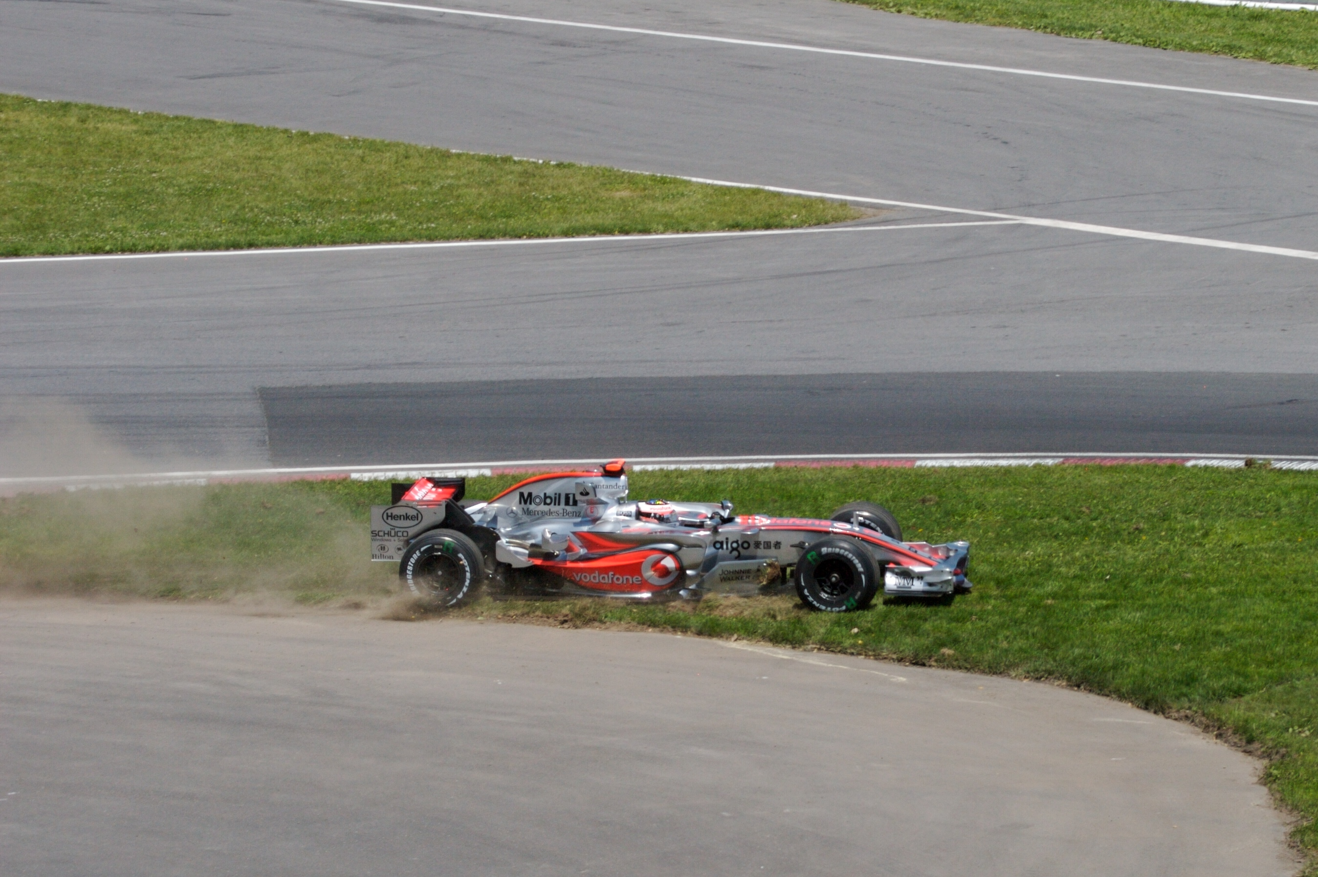 Alonso Off in Canada